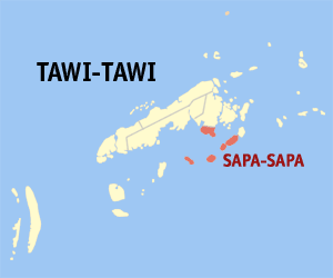 Map of the Tawi-Tawi showing the location of Sapa-Sapa